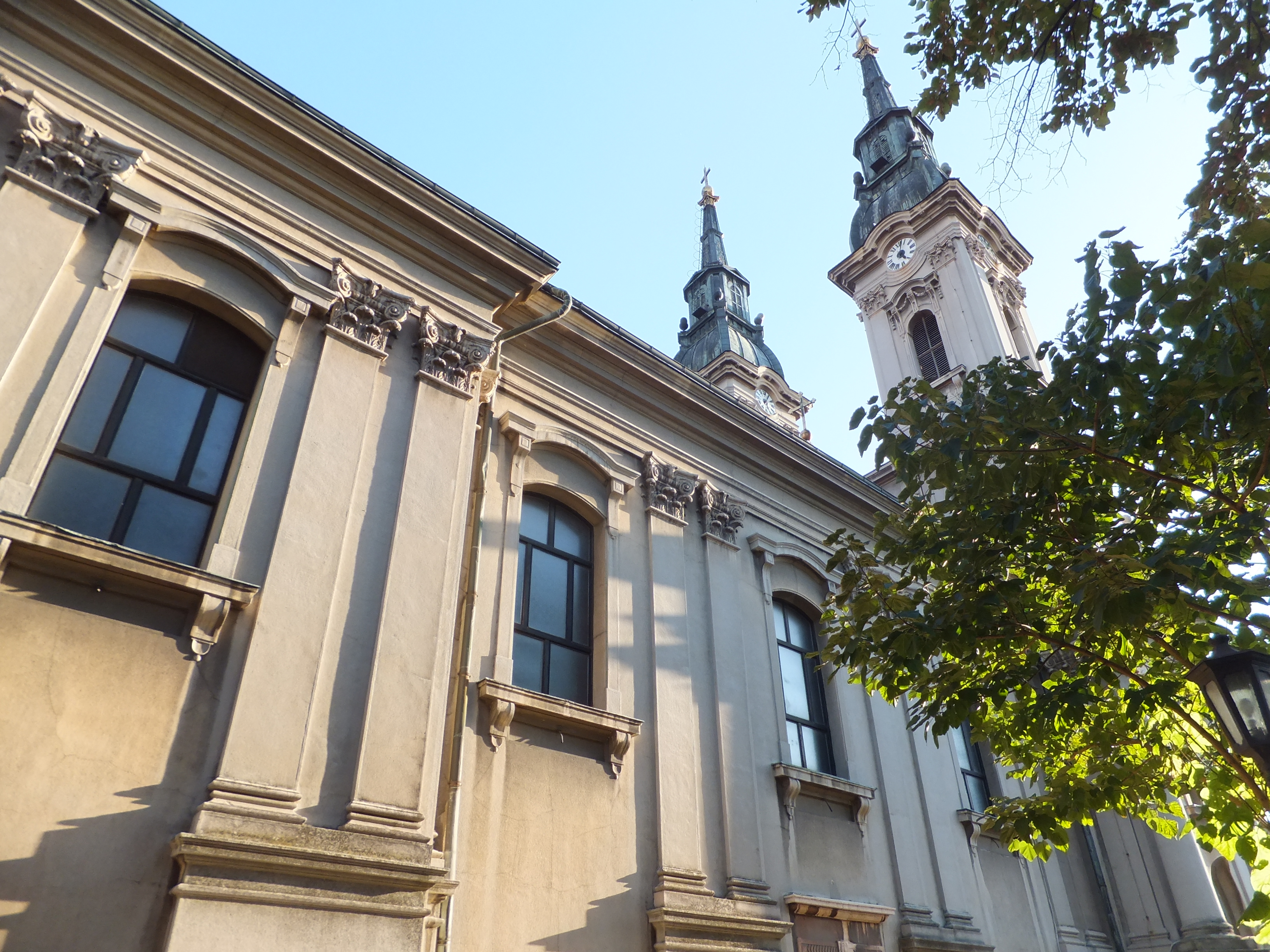 Uspenska crkva Pančevo was built between 1801 and 1810. It was declared a Monument of Culture of Great Importance.